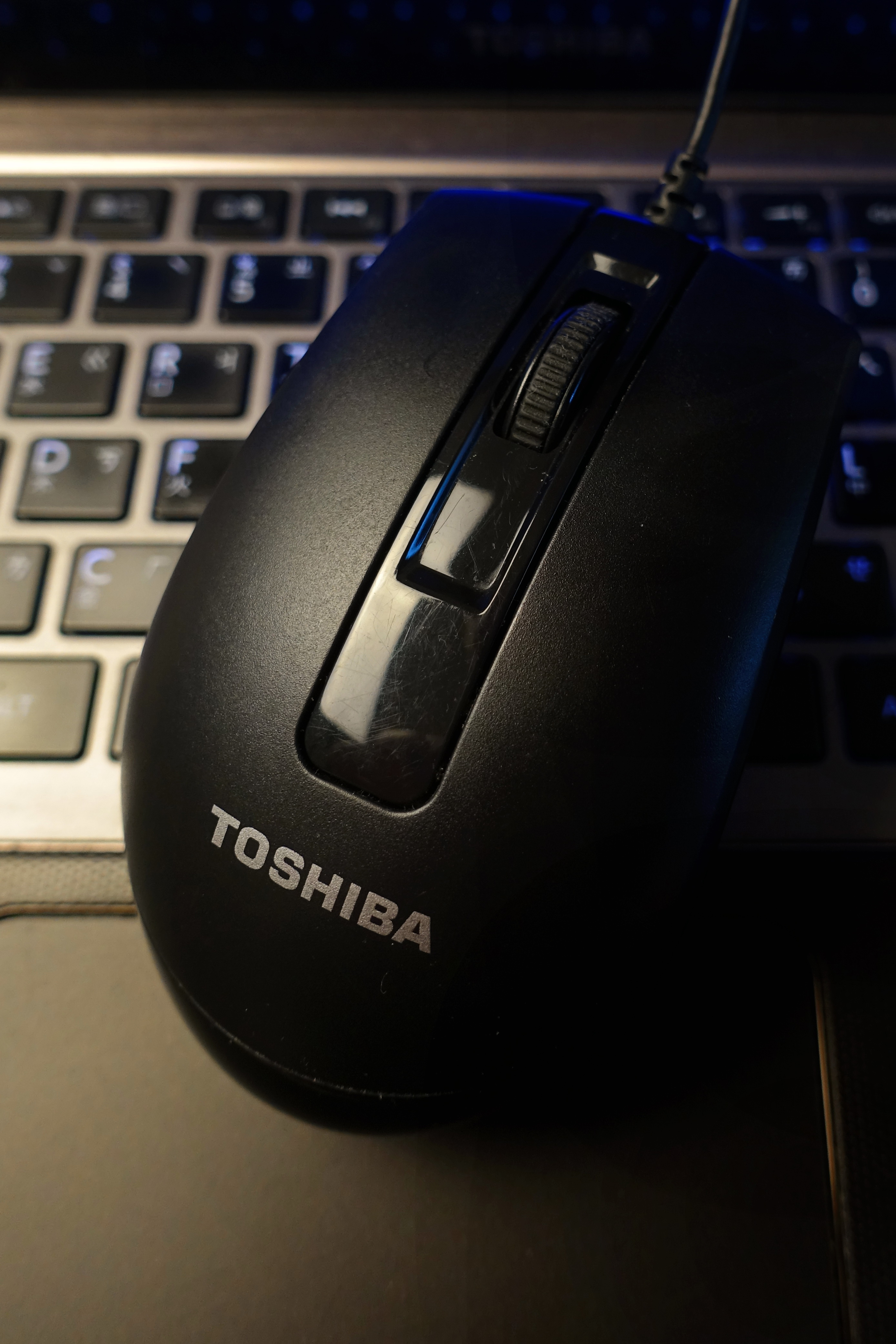 A Toshiba Optical Mouse with a scroll wheel. Model MS512.